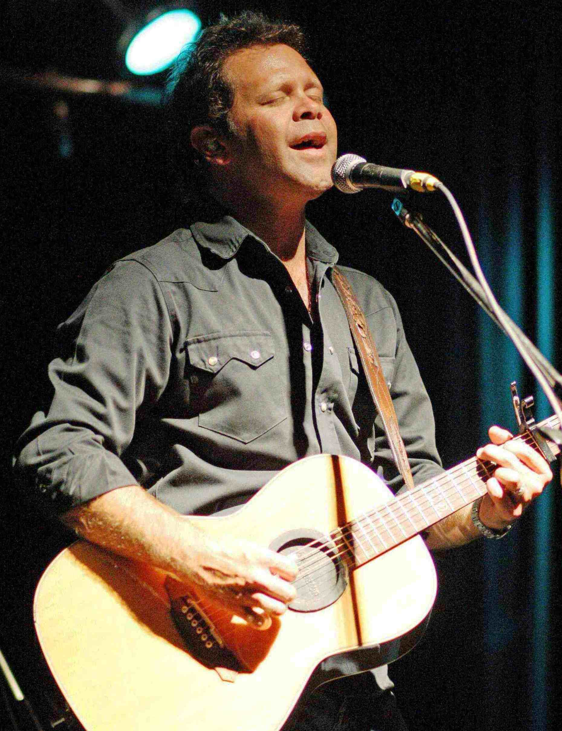 Troy Cassar on stage. Taken from Audience.